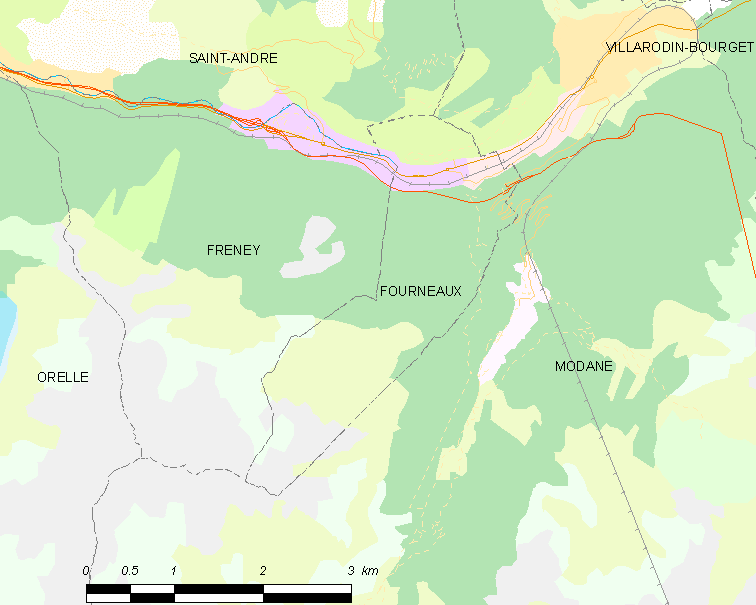 Map of French municipality